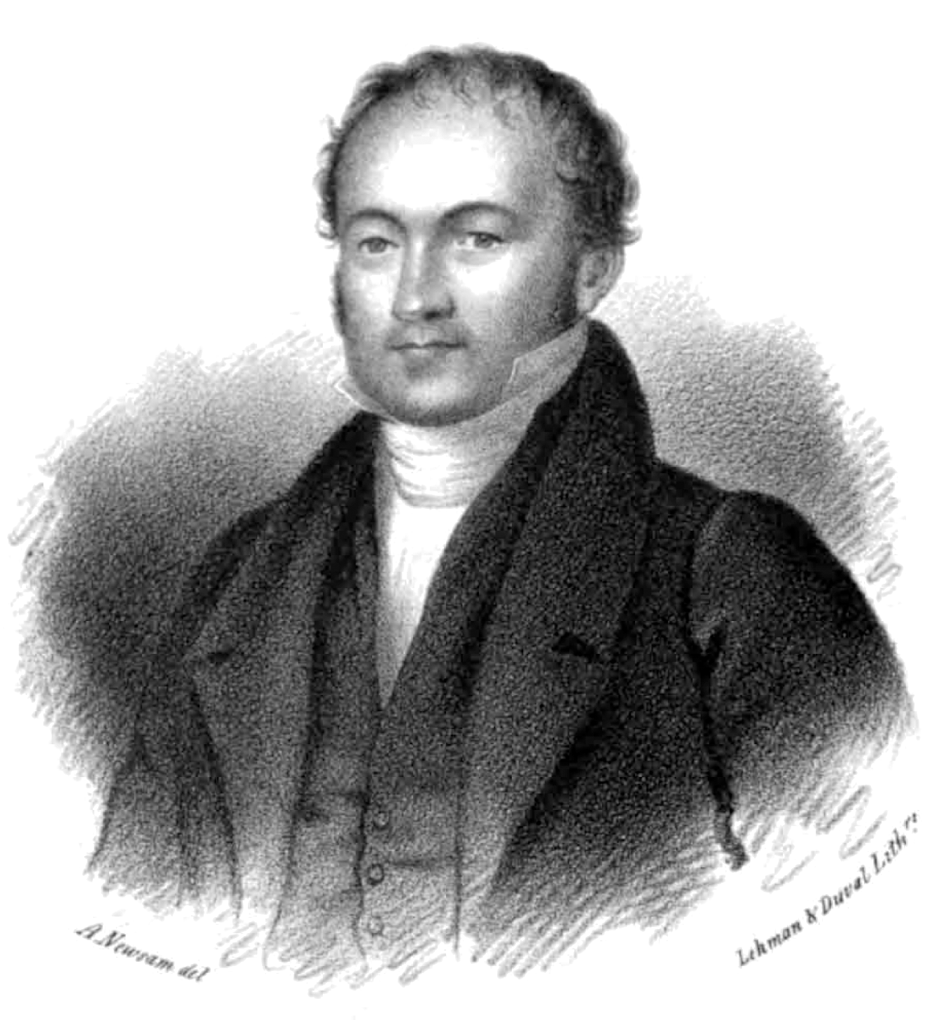 Portrait of botanist Lewis David von Schweinitz